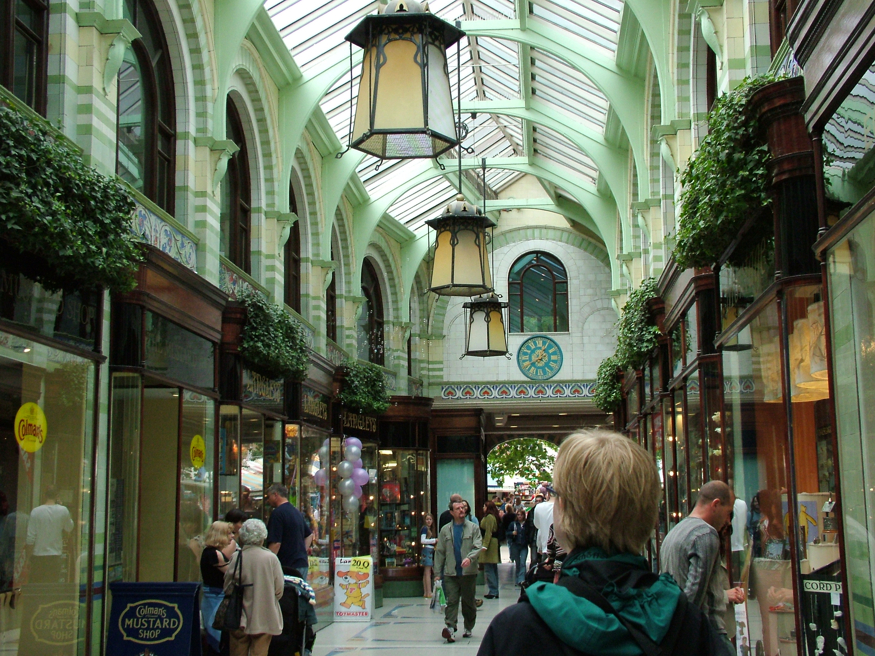 Norwich (UK), The Royal Arcade designed by George Skipper